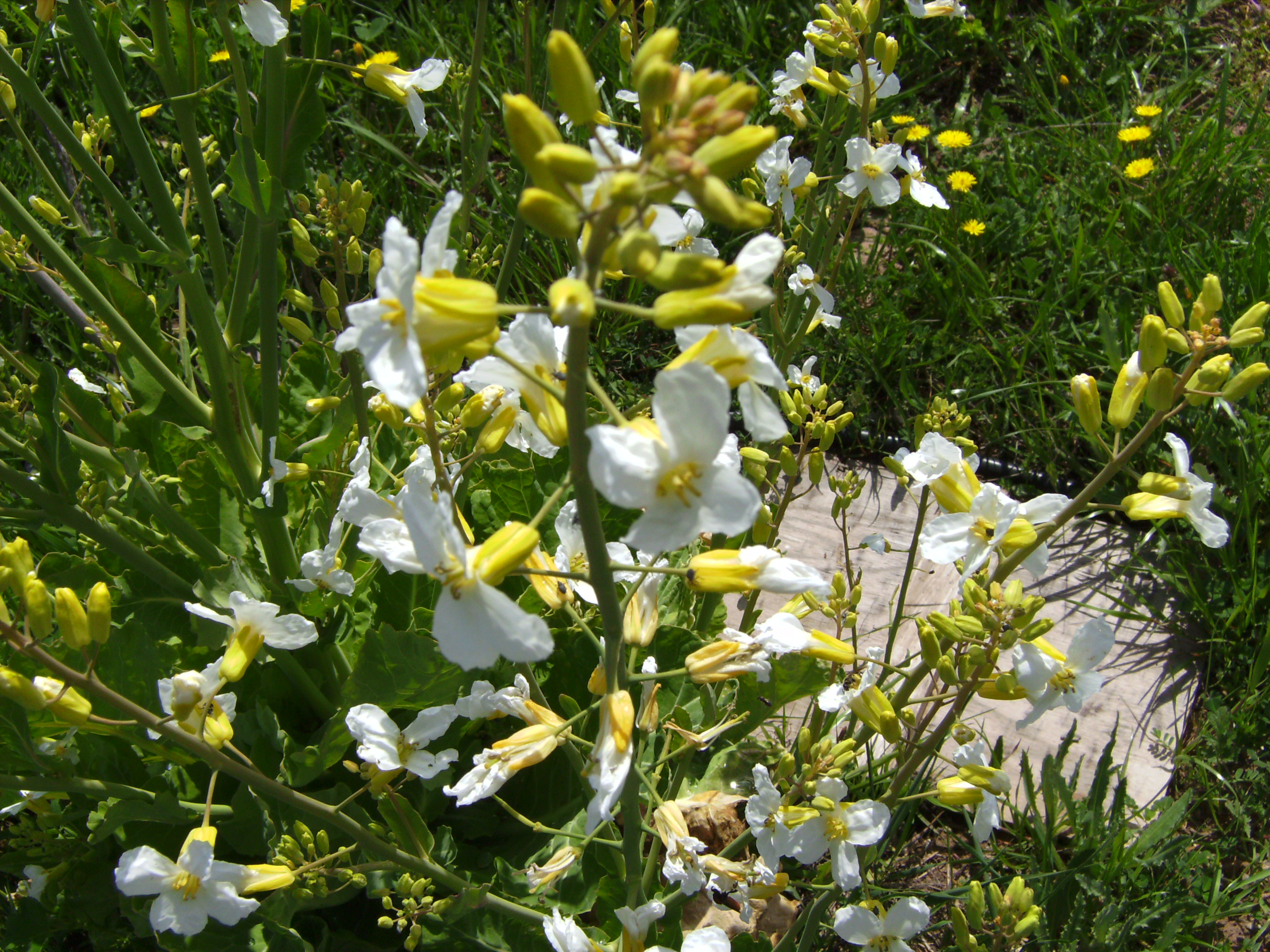 Brassica oleracea cultivar Asturias flowering Castelltallat Catalonia. 41º 47' N 1º 38' E 800 msnm